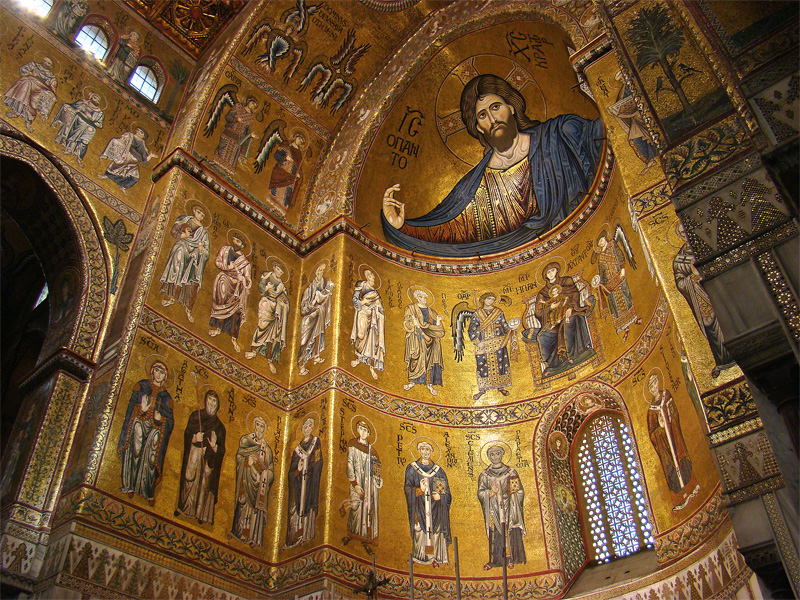 Cathedral of Monreale, Sicily, Italy. The apse.